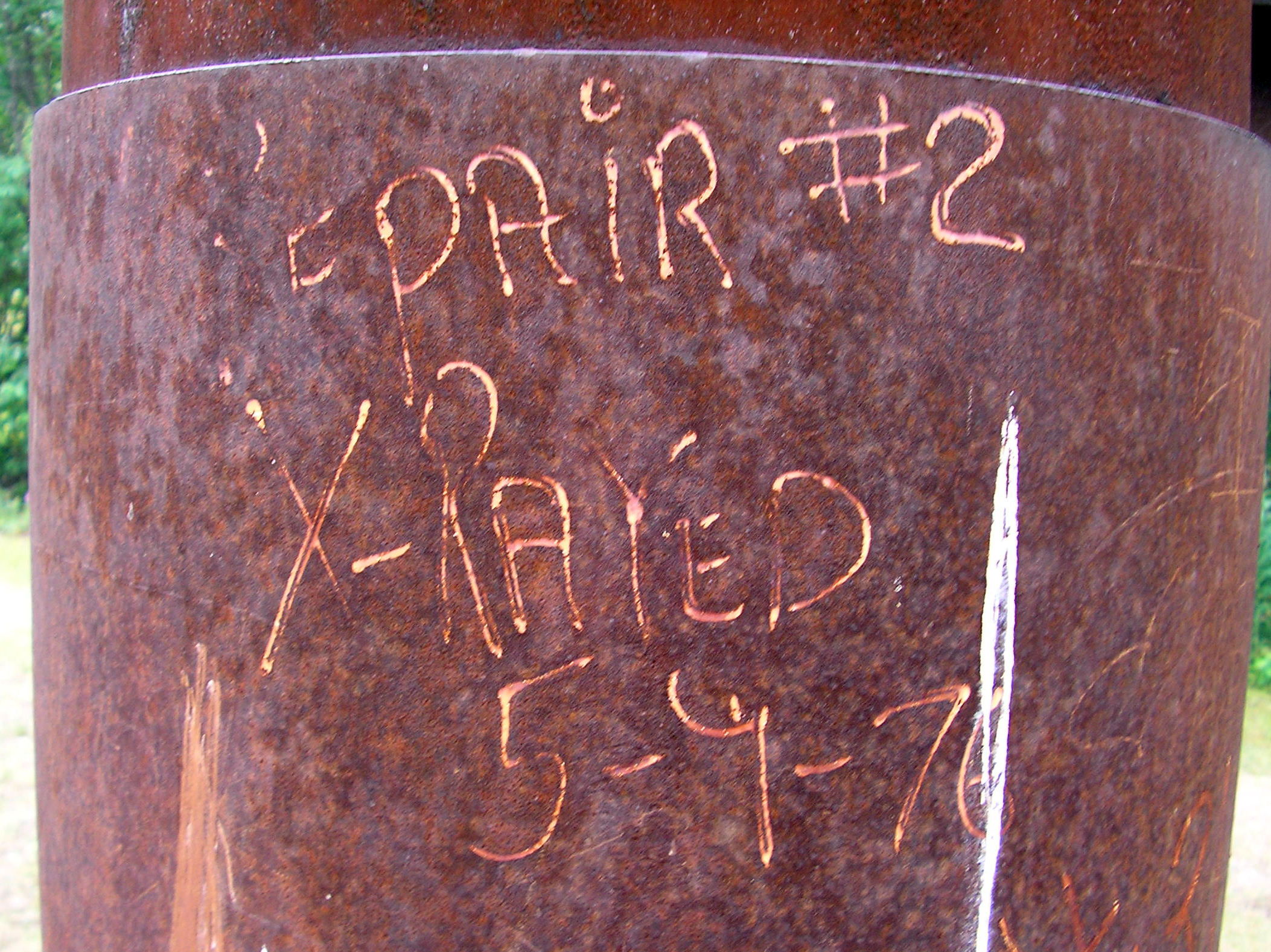 Graffiti on a vertical support member of the Trans-Alaska Pipeline indicates when the pipeline welds on the pipeline section were X-rayed during construction.